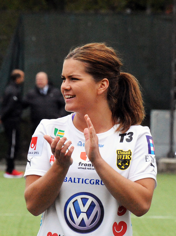 Swedish footballer Hannah Folkesson